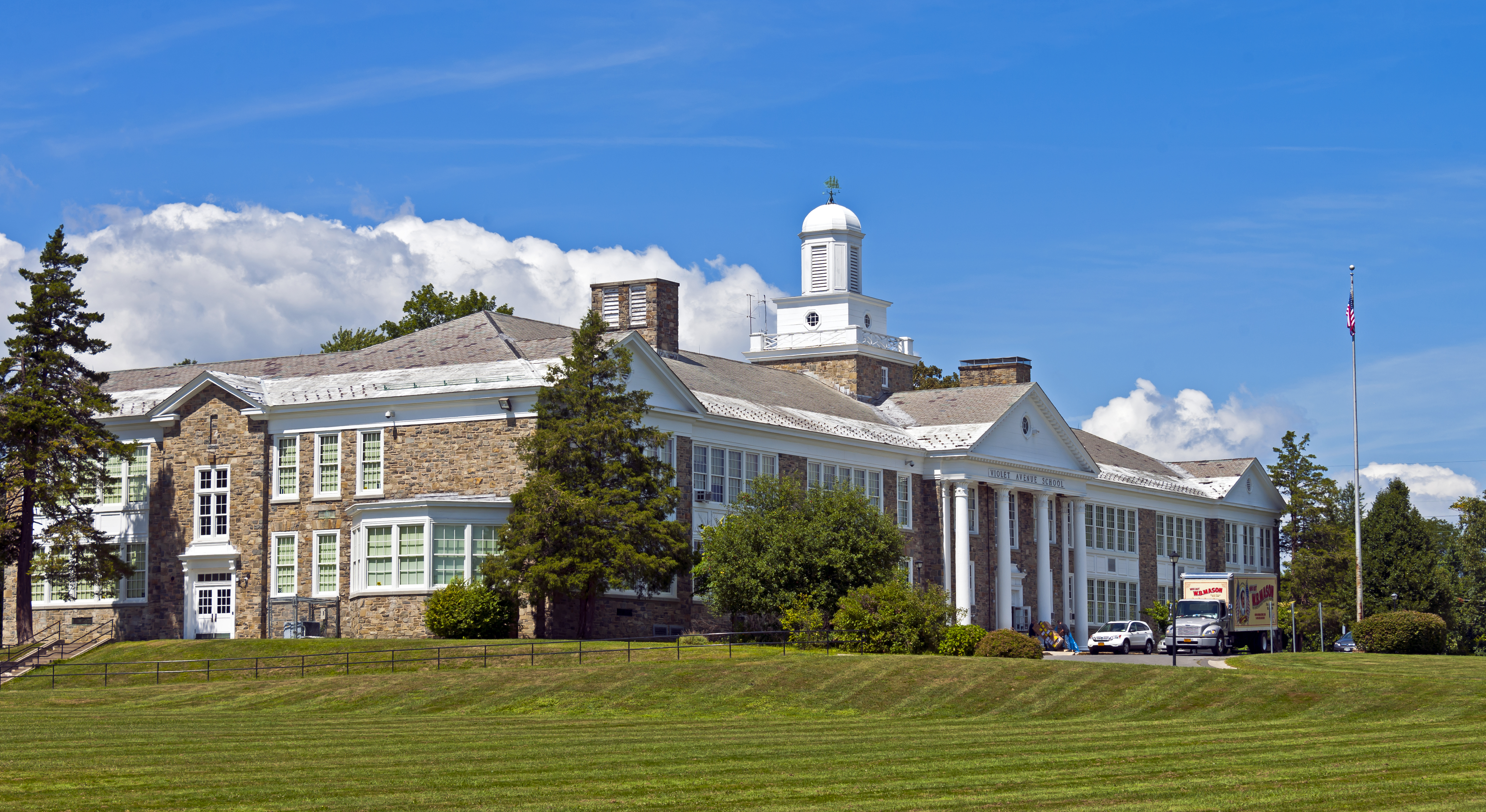 Violet Avenue Elementary School, Poughkeepsie, NY, USA